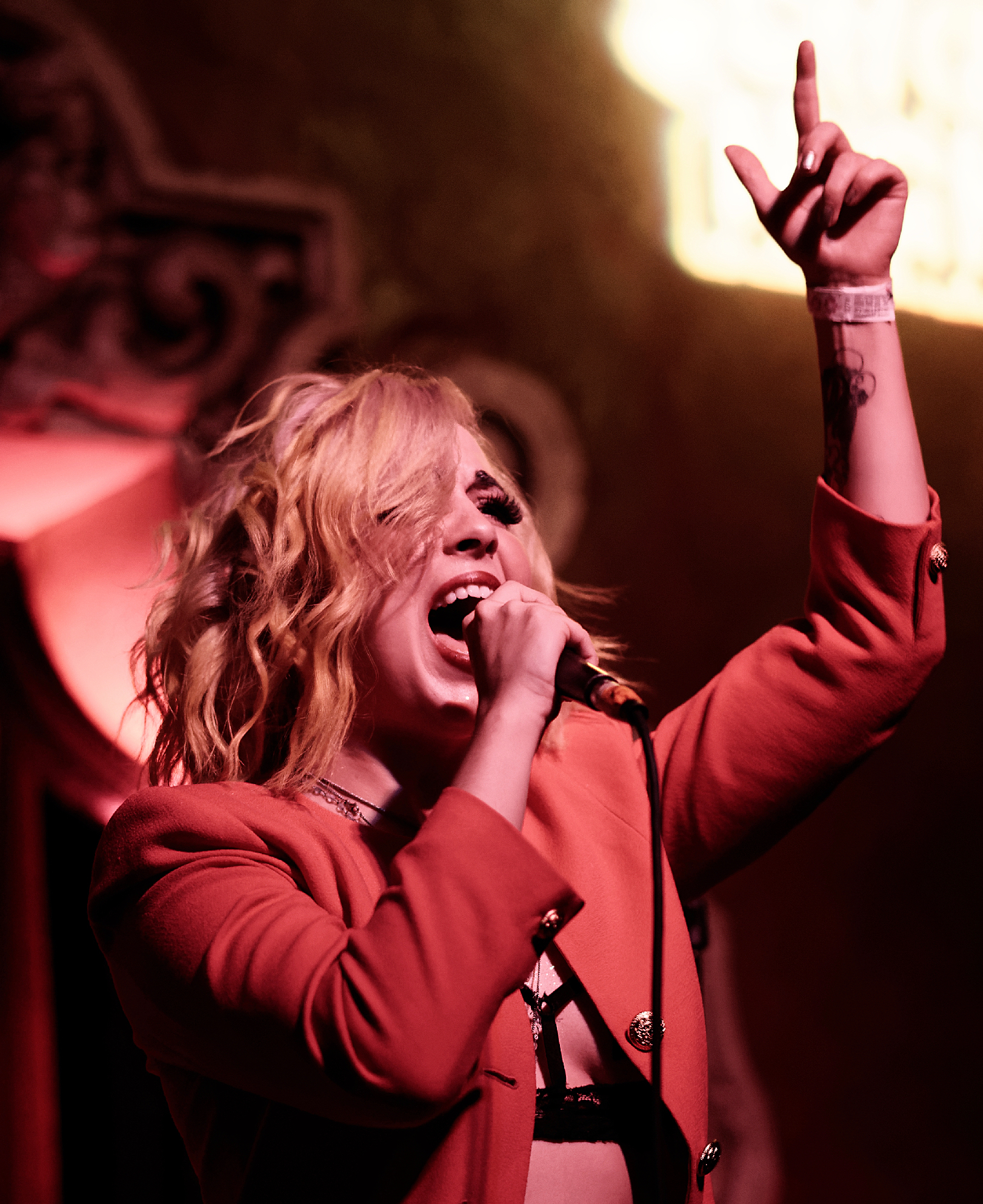 Sizzy Rocket performing live at "It's A School Night" at Bardot Hollywood in Los Angeles California on Monday August 22nd, 2016.